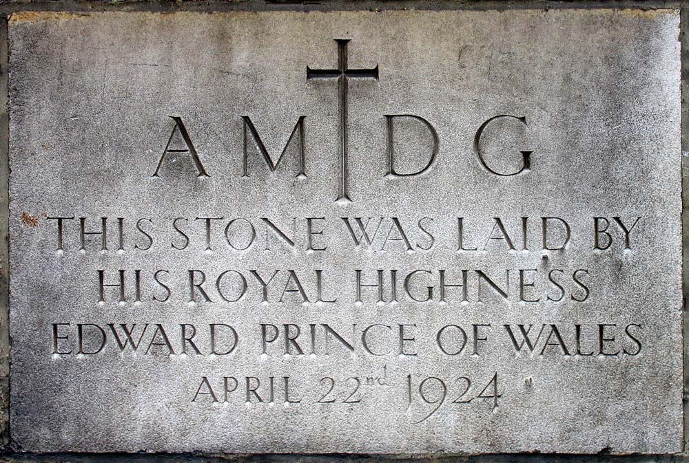 Foundation stone of St Saviour's church and institute, Old Oak Road, Acton, London W3